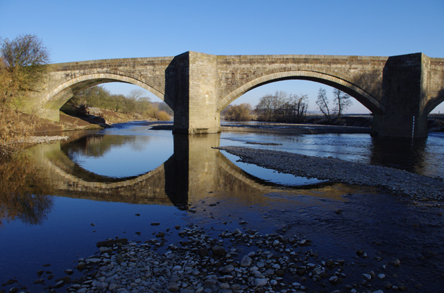 Loyn Bridge Another shot of the bridge over the River Lune on a frosty morning.